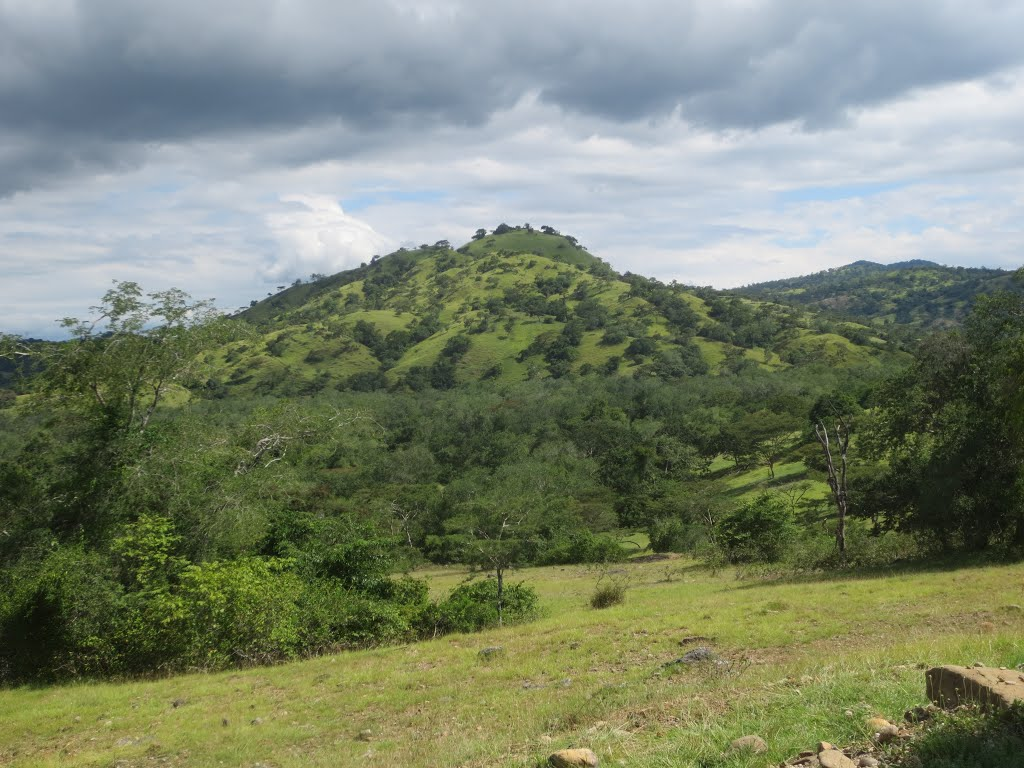 Savanna woodland 3 km west of Laleia, 13 Apr 2013.jpg